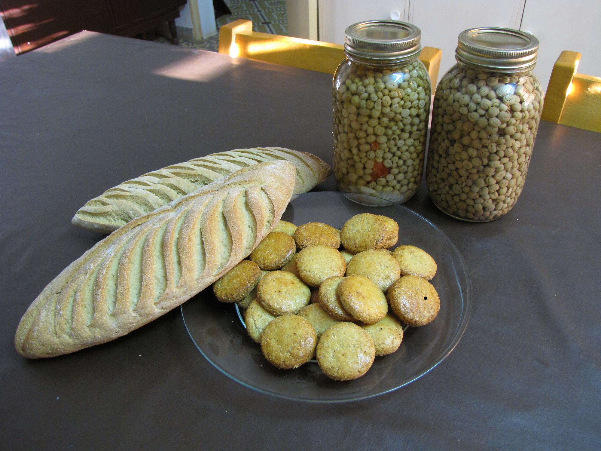 Edible products made from debittered, wild Boscia senegalensis seeds in the Republic of Niger